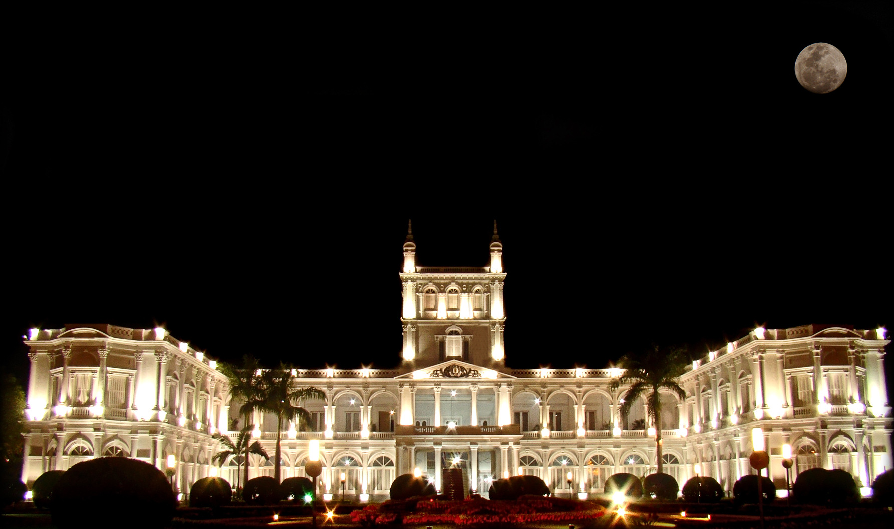 Palace of the Lopez is a palace in Asunción, Paraguay, that serves as workplace for the President of Paraguay, and is also the seat of the government of Paraguay, Asunción.